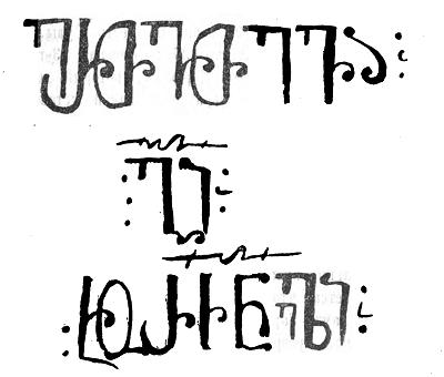 Ekvtime Takaishvili's rendition of the asomtavruli Georgian inscription from the Zarzma monastery, mentioning Duke of Dukes Giorgi Chorchaneli.